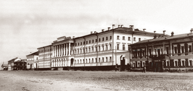 Seminarskaya Square in Nyzhny Novgorod